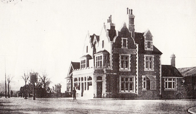 Archery Tavern, Eastbourne. Rendezvous point for the first of the two, separate, Crumbles murder victims and her murderers.